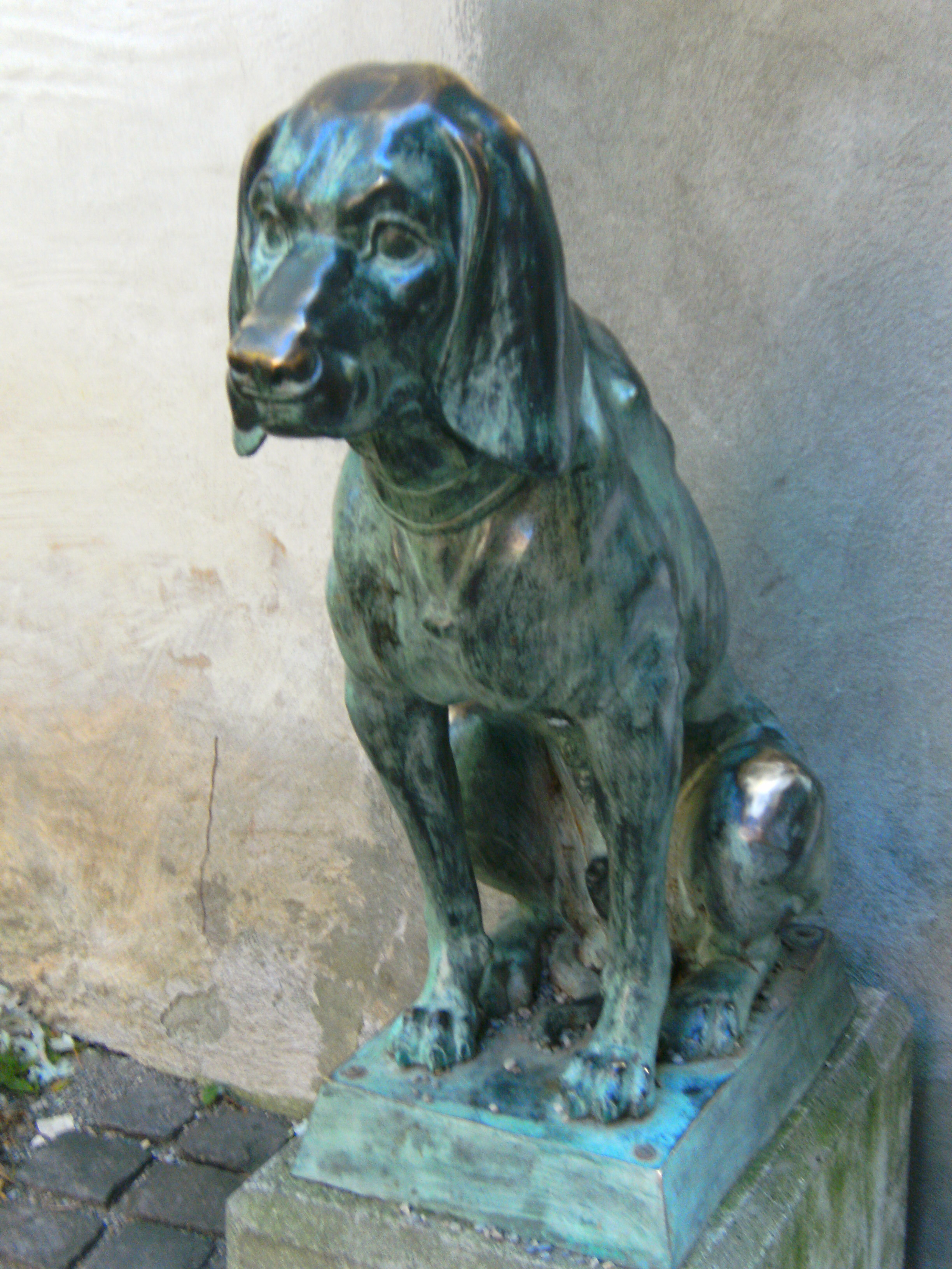 Konstanz, Germany, in the courtyard of the town hall. Sculpture Bello. Symbol of twin town alliance of Konstanz in Germany with Fontainebleau in France